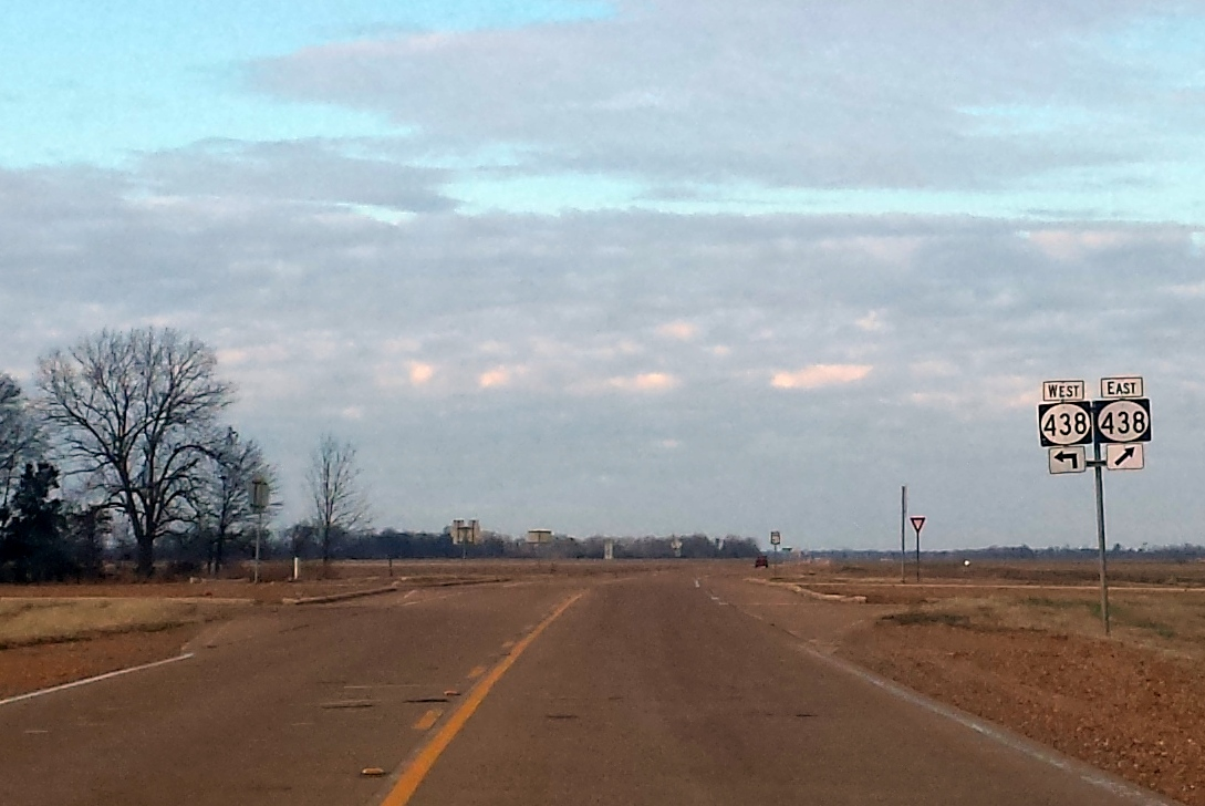 Highway 61 at the Highway 438 junction north of Hollandale, MS